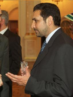 Ahmad Zia Massoud as Ambassador of Afghanistan. This is a cropped version of file:Vladimir_Putin_with_Ahmad_Zia_Massoud.jpg